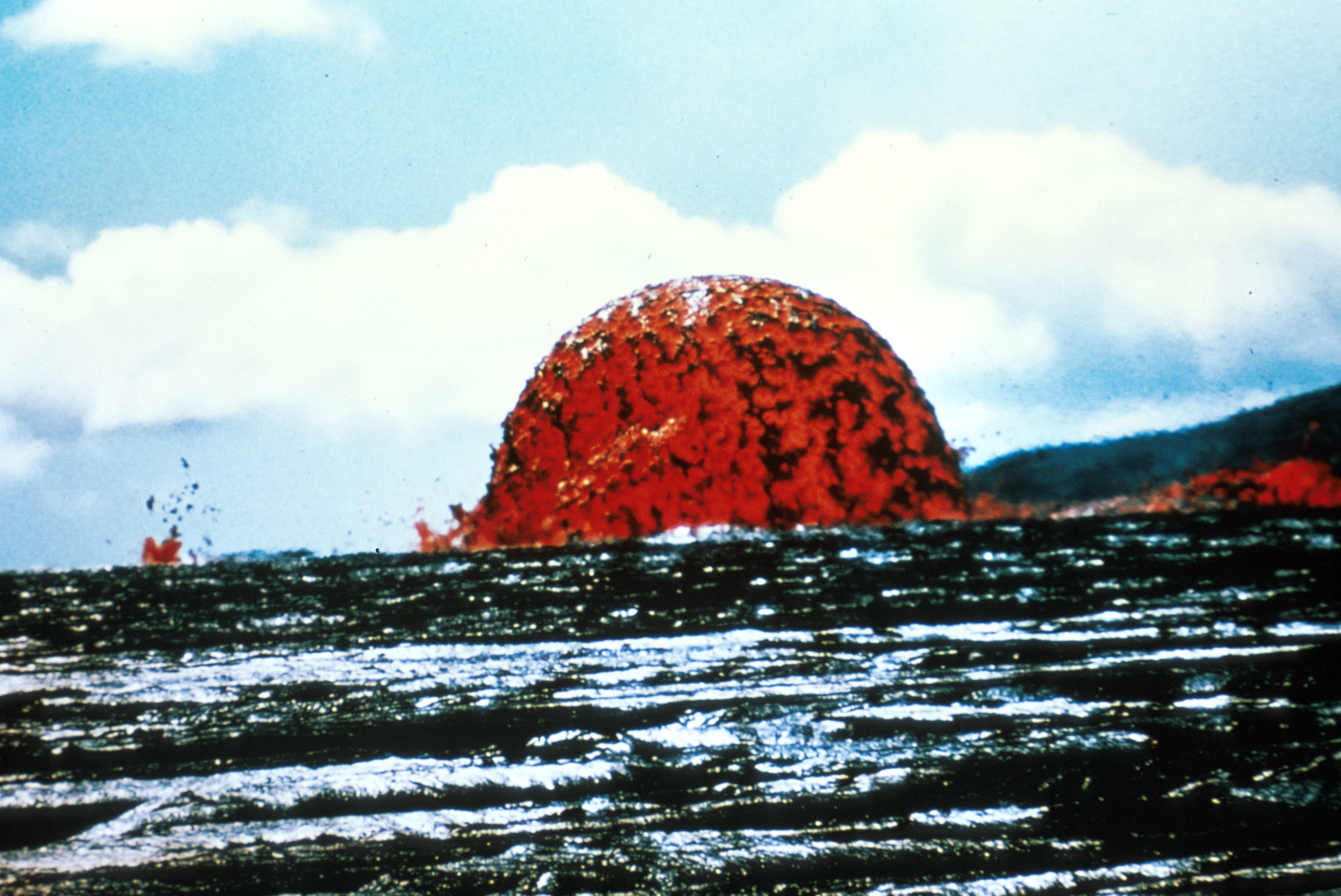 Dome fountains are hemispherically shaped lava fountains that form when the upward pressure of magma from the conduit below is in approximate equilibrium with the mass of ponded lava through which it passes. Dome fountains may reach as high as several tens of meters, and they typically occur in relatively gas-poor lavas. The dome fountain shown here is about 20 meters (66 ft) tall and formed during the 1969-71 Mauna Ulu eruption of Kilauea Volcano, Hawai`i.